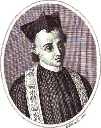 Tommaso Aversa, Sicilian poet and writer